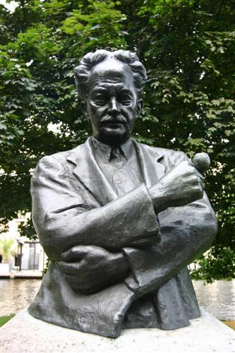 Bust of writer Arthur van Schendel, near Leidseplein, Amsterdam